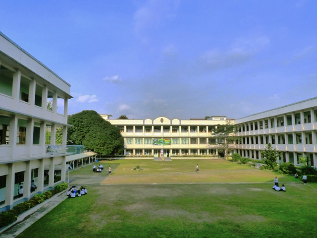 High School Department Facade